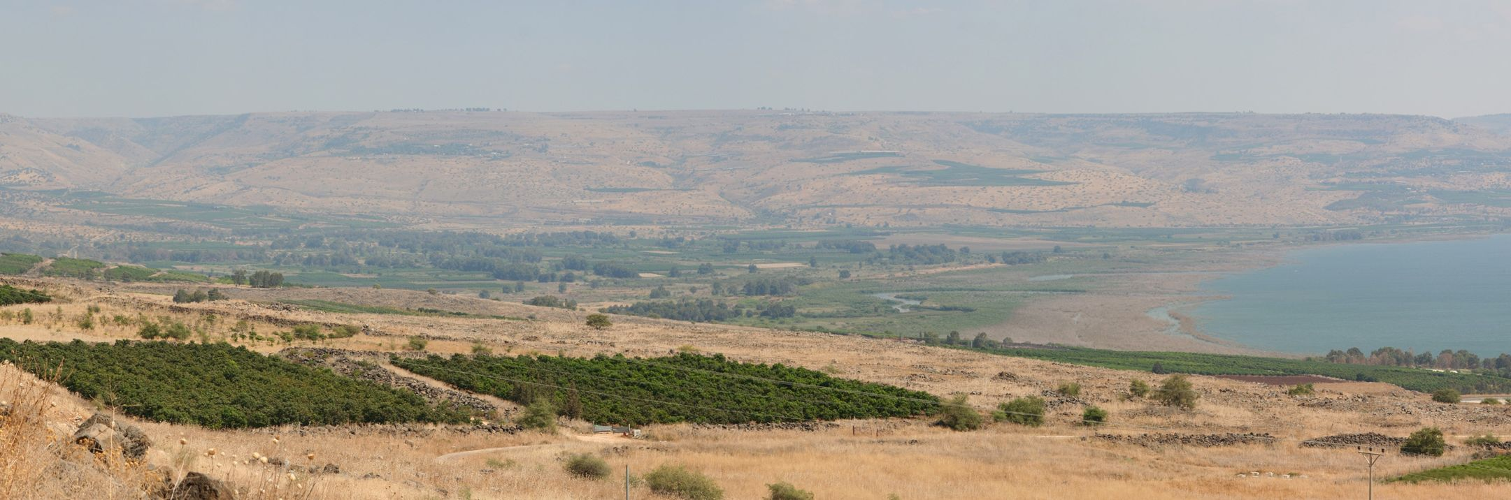 Panoramic of the "Kineret", the Sea of Gallile